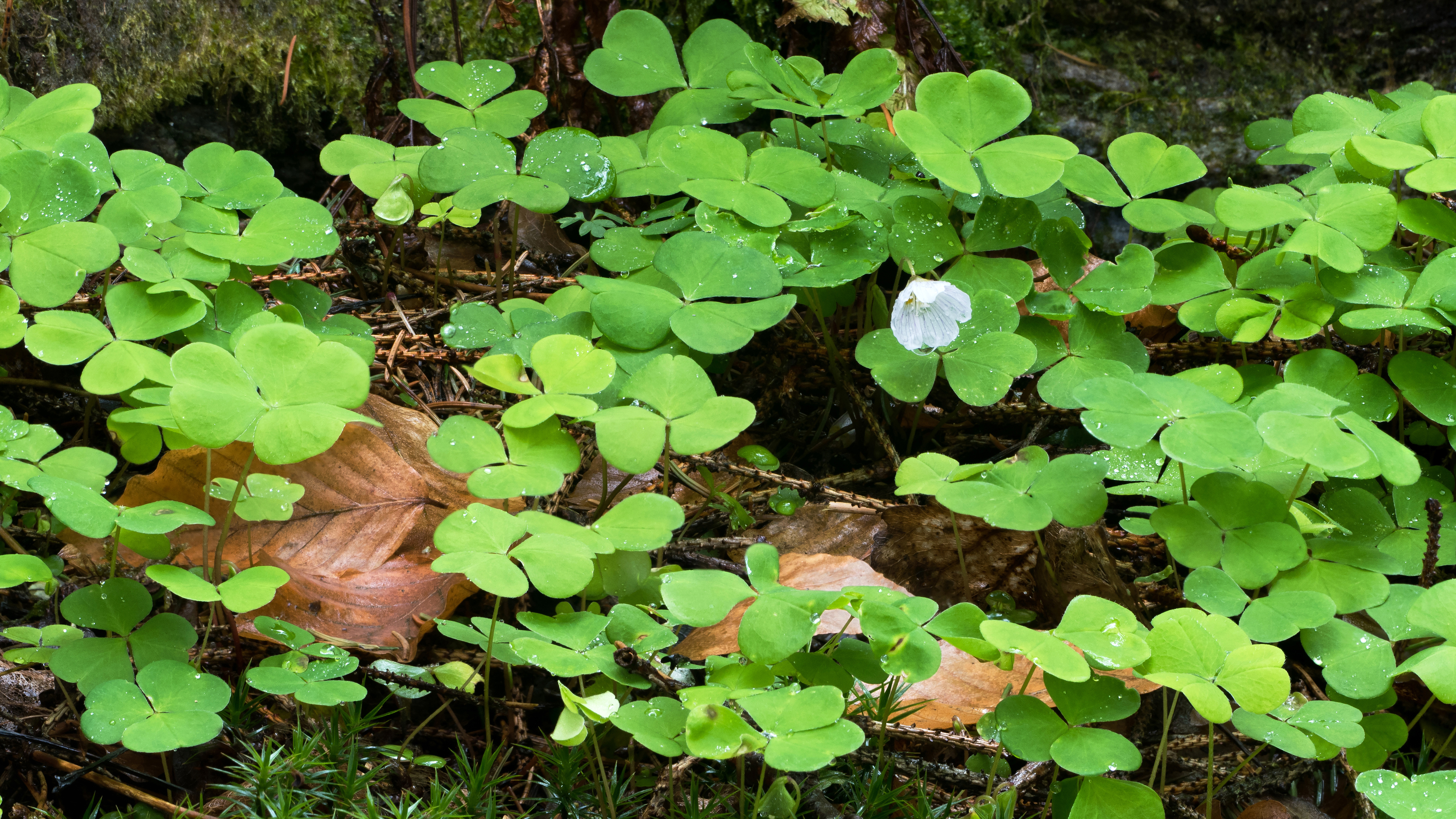 Wood sorrel (Oxalis acetosella) and haircap moss (Polytrichum commune) after rain in the spruce forest above Holma Boat Club, Lysekil Municipality, Sweden. Focus stacking of 3 pictures (using Photoshop).